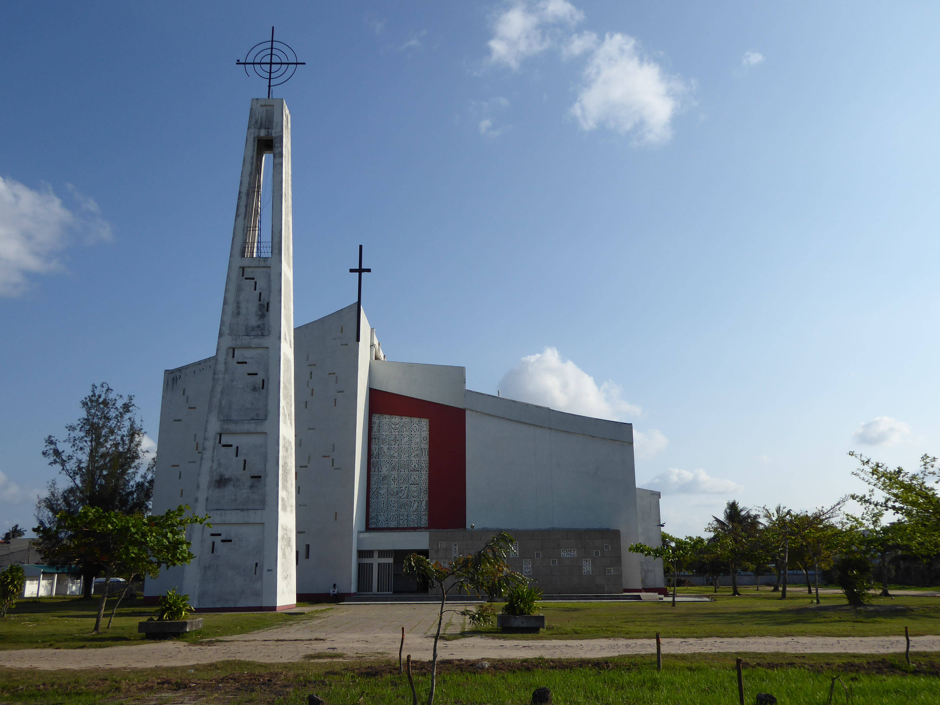 New cathedral of Quelimane, Mozambique